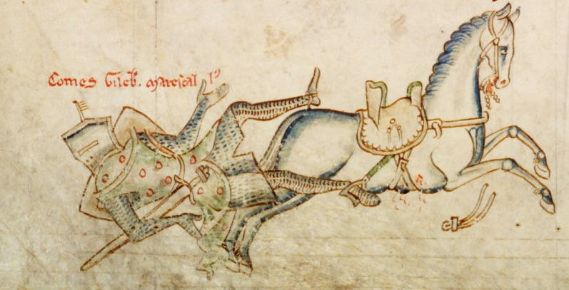 Gilbert Marshal, 4th Earl of Pembroke - death